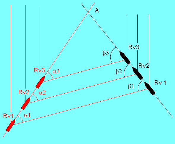 colition course scheme